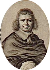 Antoine Le Pautre